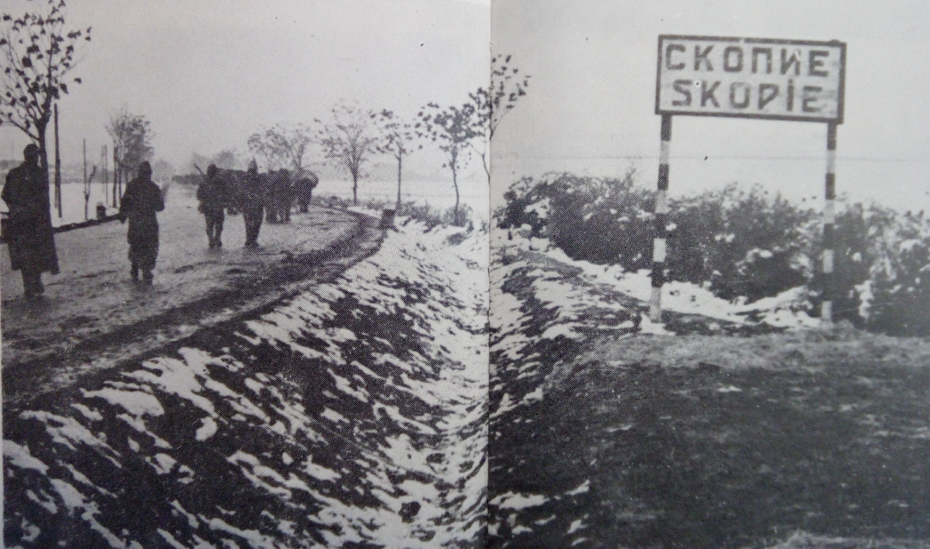 Bulgarian military detachments entering Skopje.